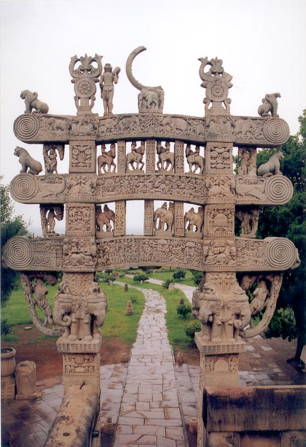 Carved decoration of the north gateway, inner part, to the Great Stupa (n° 1) of Sanchi, Madhya Pradesh, India.